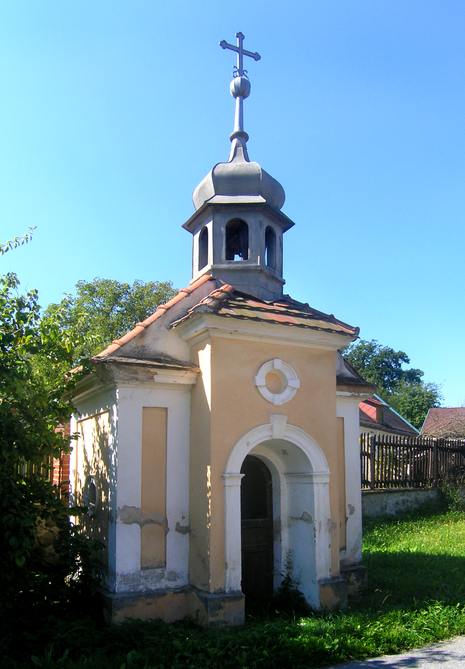 Chapel in Hnojná Lhotka, part of Slapy village, Czech Republic